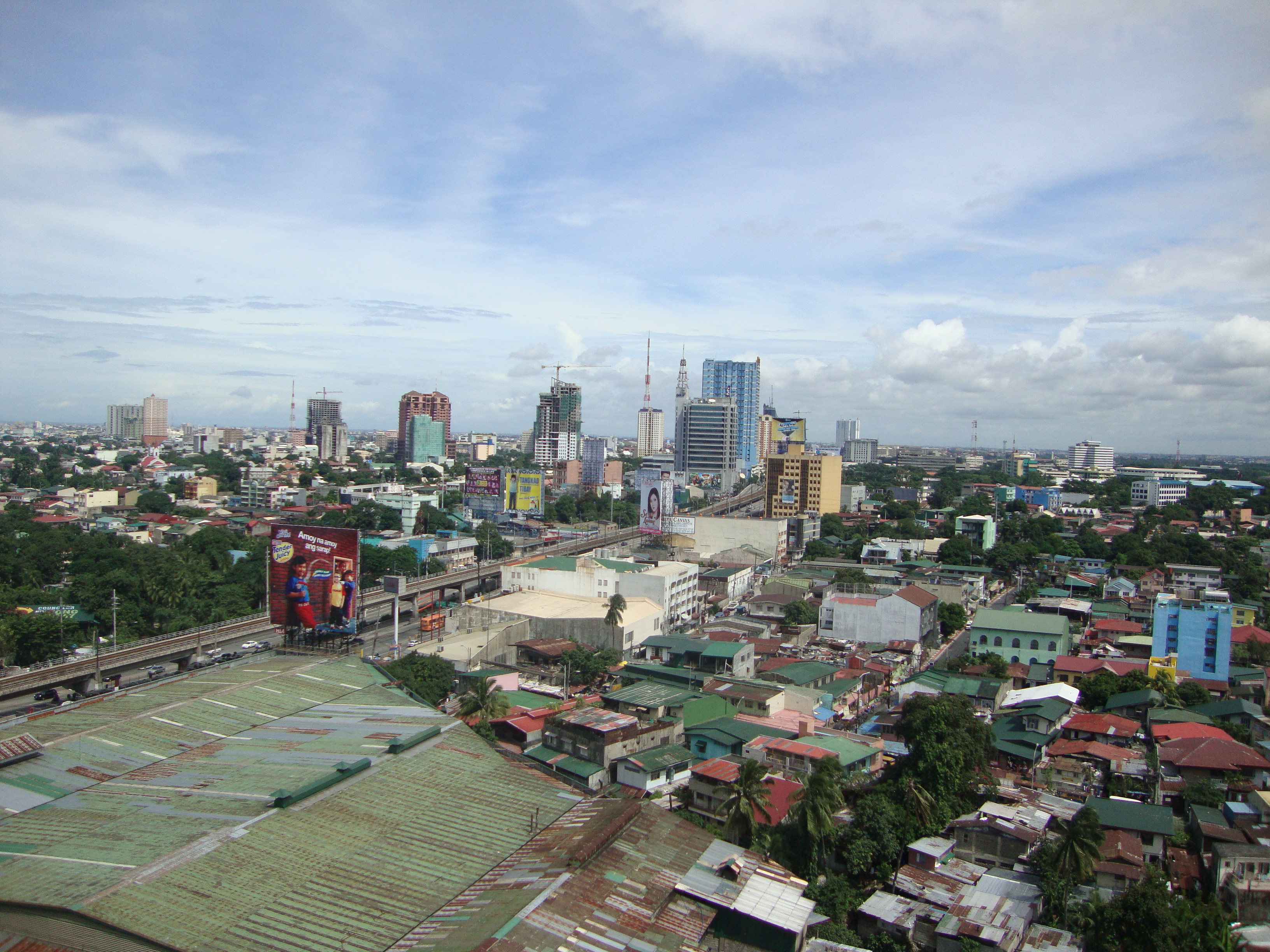 Quezon City Aerial View near Cubao